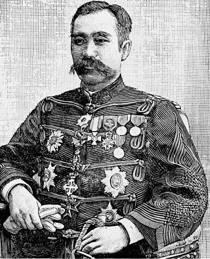 Lieutenant-General Kawakami, Vice-President of the General Staff